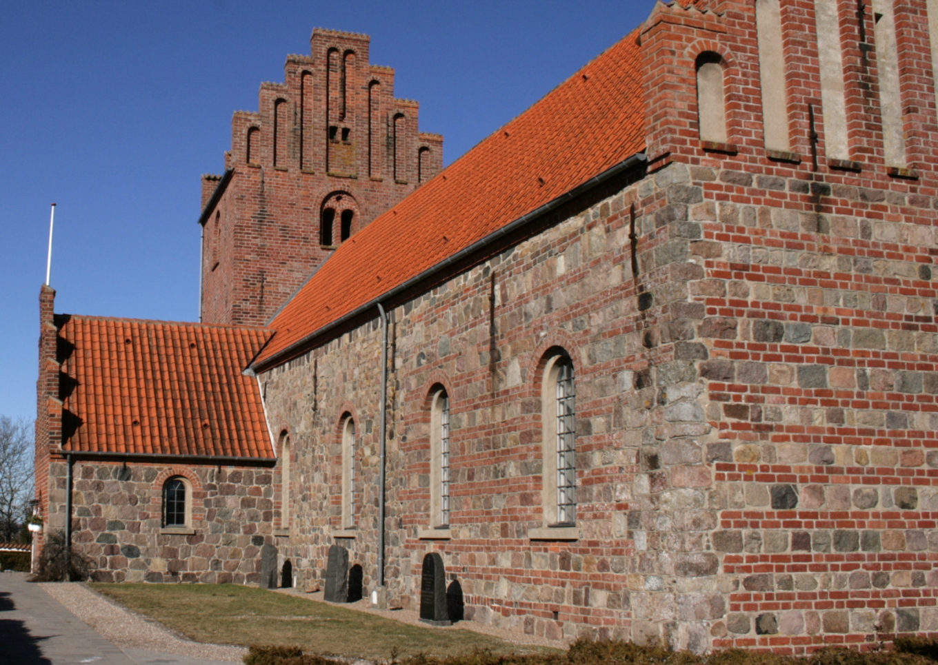 The parish church of Viskinge, Sealand, Denmark.